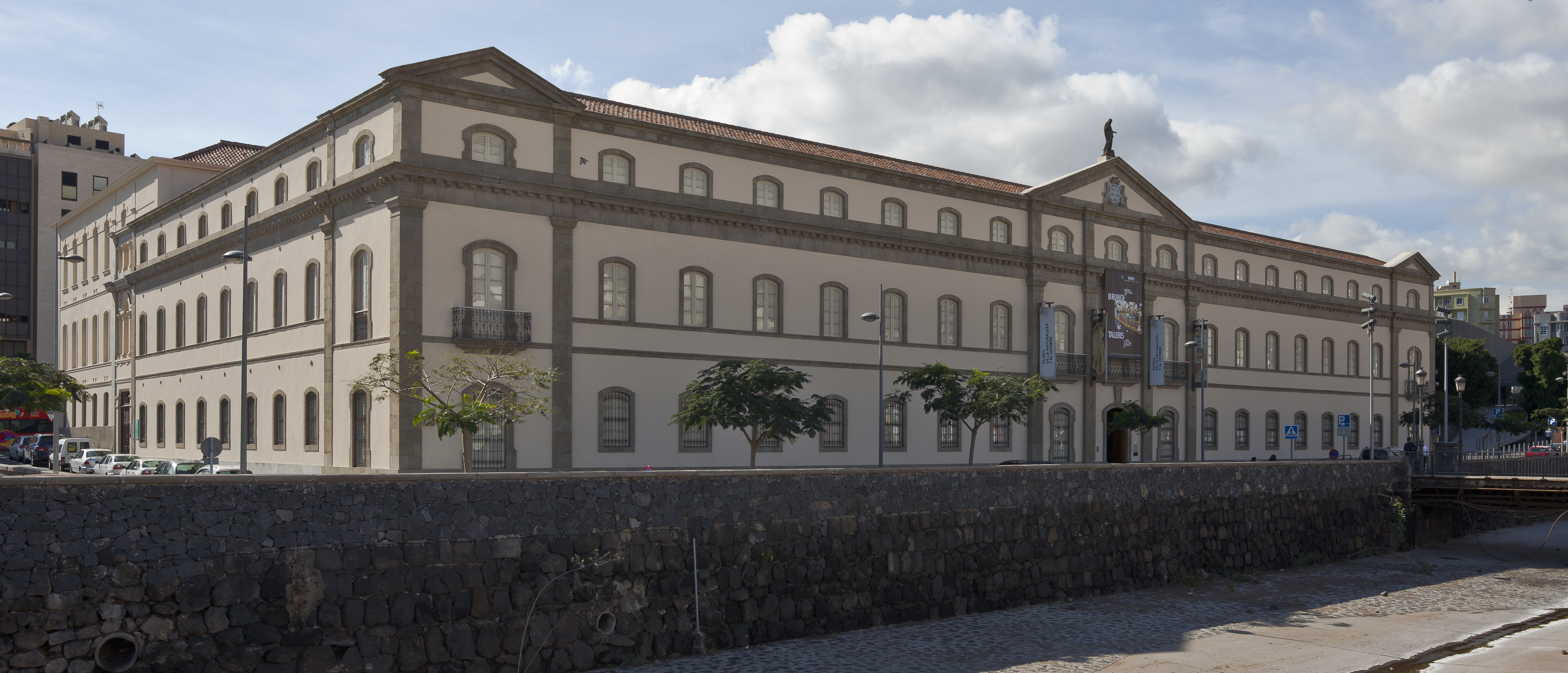 Museum of the Nature and the Human Being, Santa Cruz de Tenerife, Spain